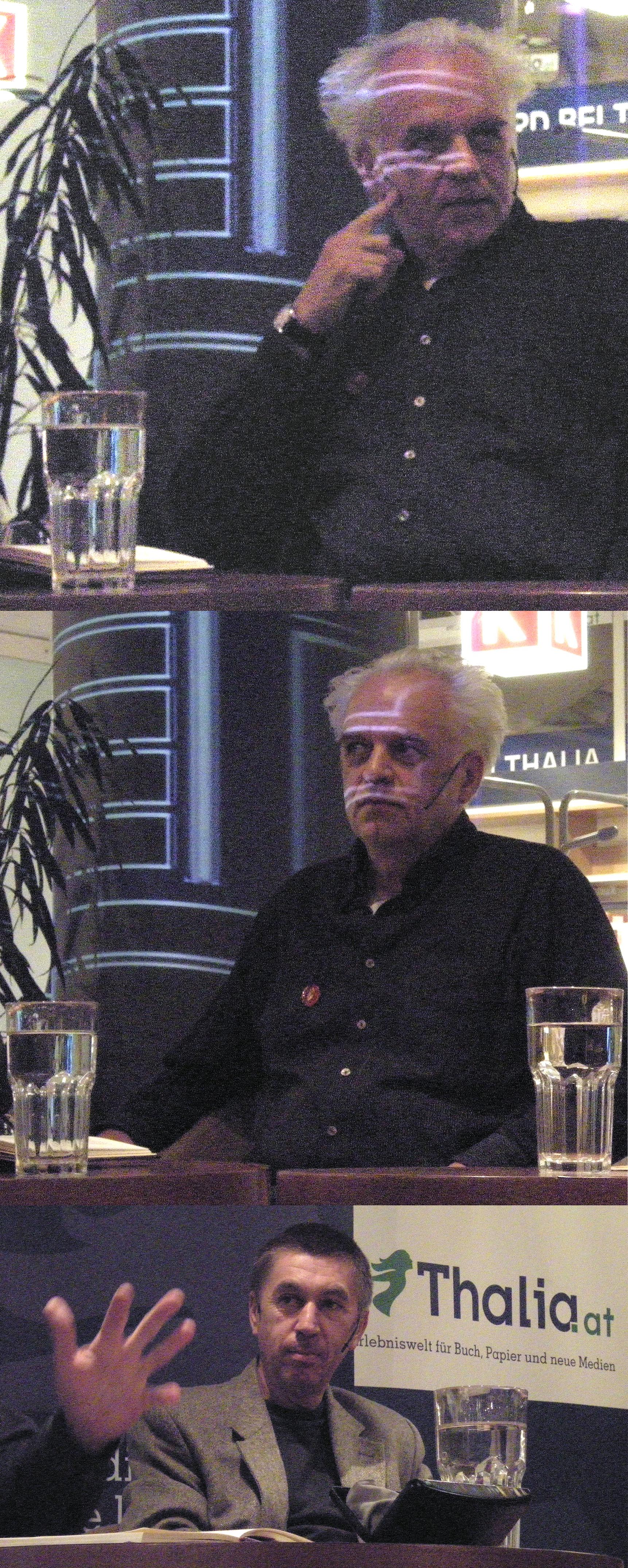 Palm and Wolfgang Beyer (ORF) presenting Palm's latest book, the cranky detective story 'Bad Fucking' (ISBN: 9783701715343).